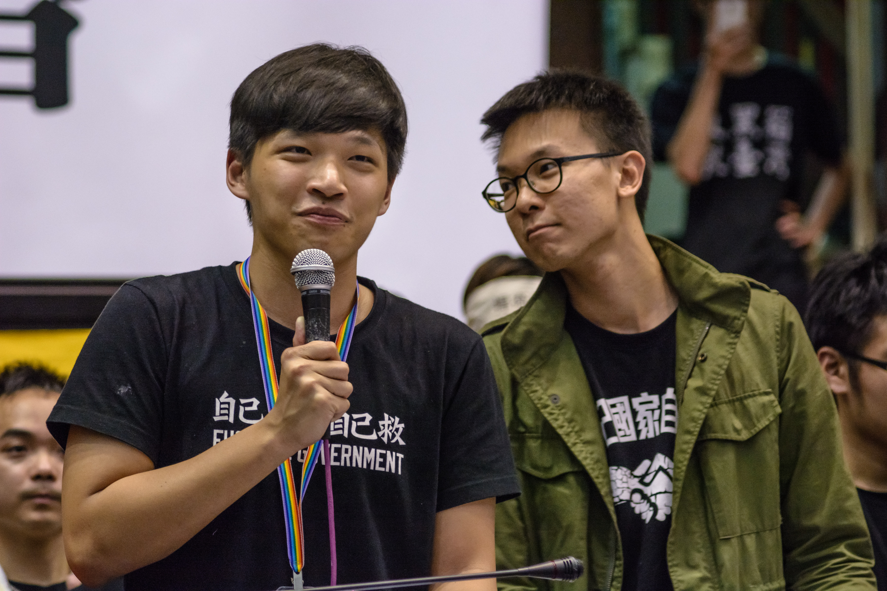 Students' mass protest in Taiwan to end occupation of legislature